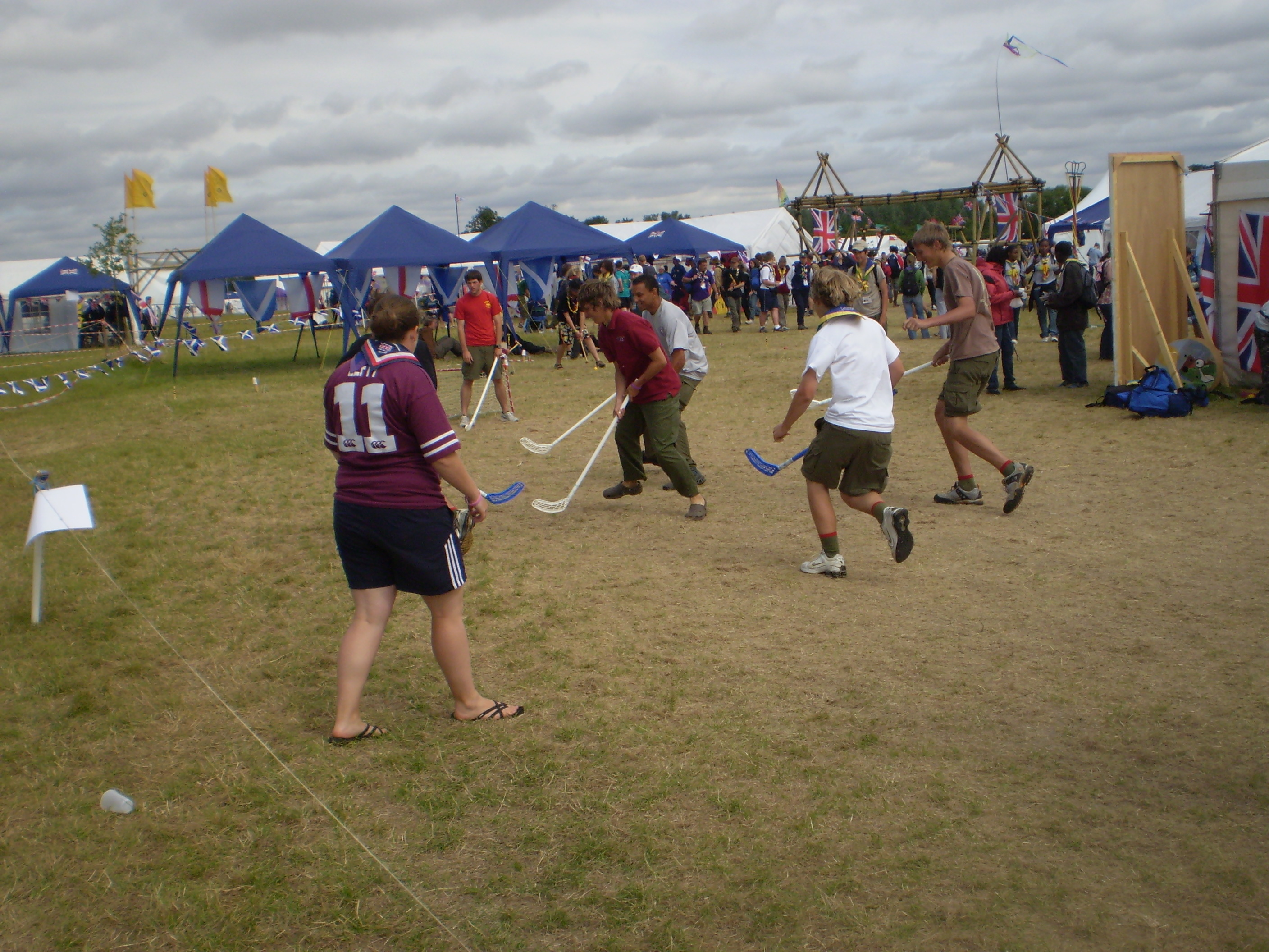 TerraVille activities at the 21st World Scout Jamboree: Shinty